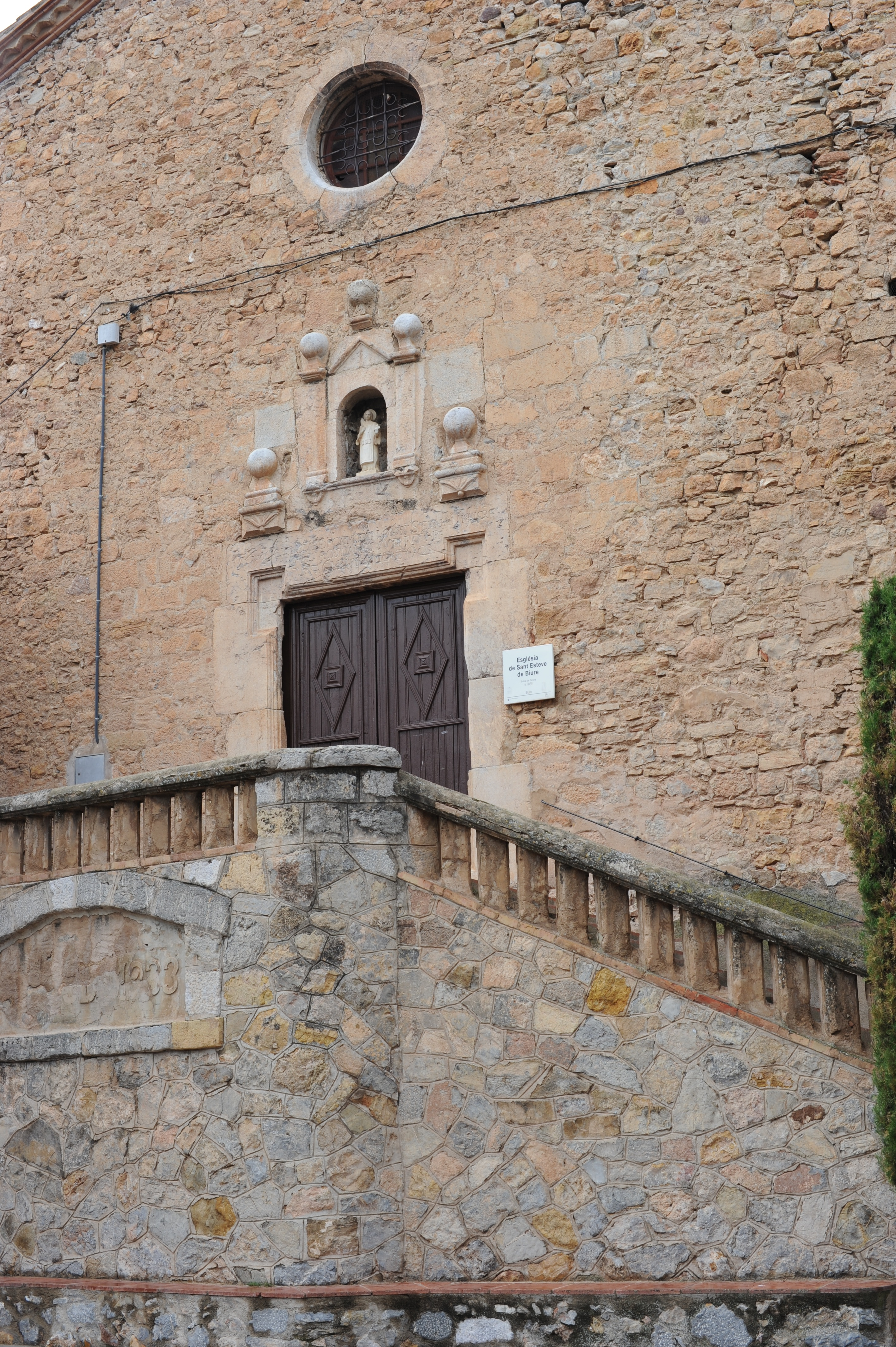 Church of Sant Esteve de Biure